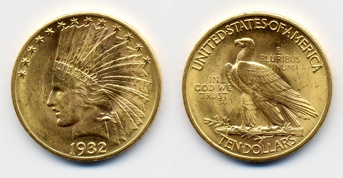 1932 USA 10 dollars coin.